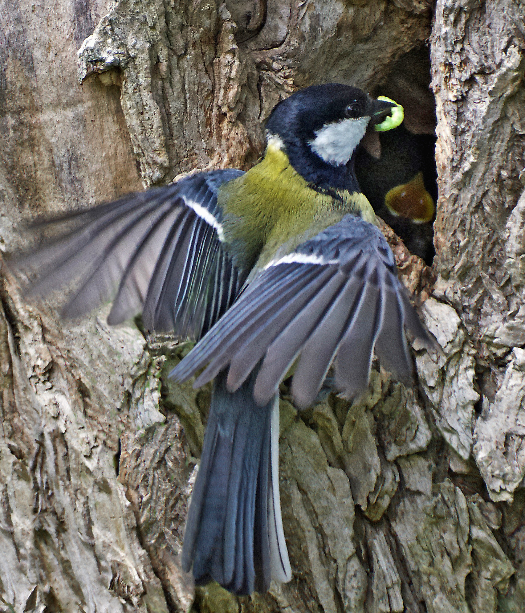 A great tit with spread wings is preparing to feed one of its chicks with a green caterpillar in a natural cavity in a strong elder bush. In the hole the open beak of one of the nestlings is visible.